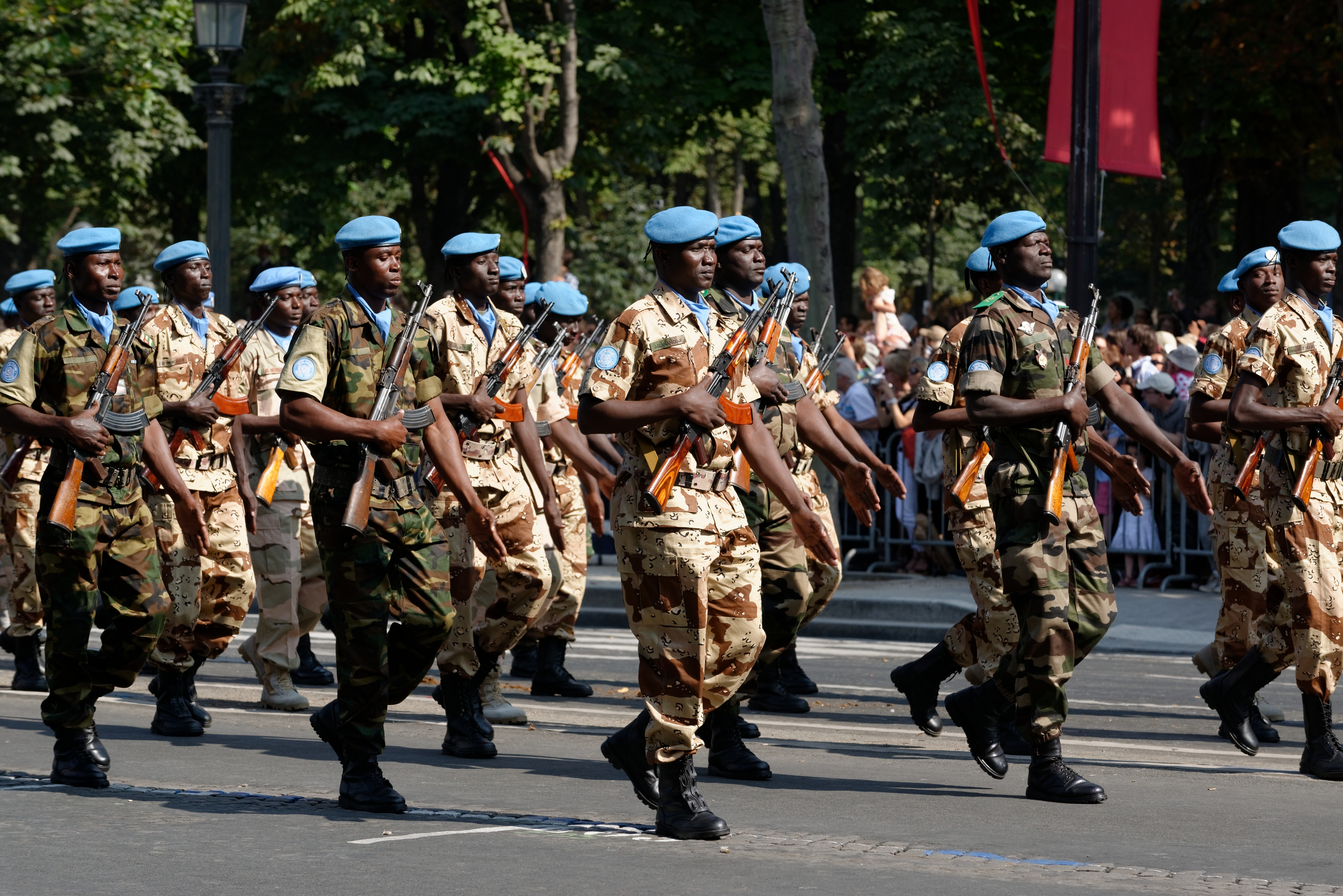 Detachment of the United Nations Multidimensional Integrated Stabilization Mission in Mali (MINUSMA) in the Bastille Day 2013 military parade on the Champs-Élysées in Paris.